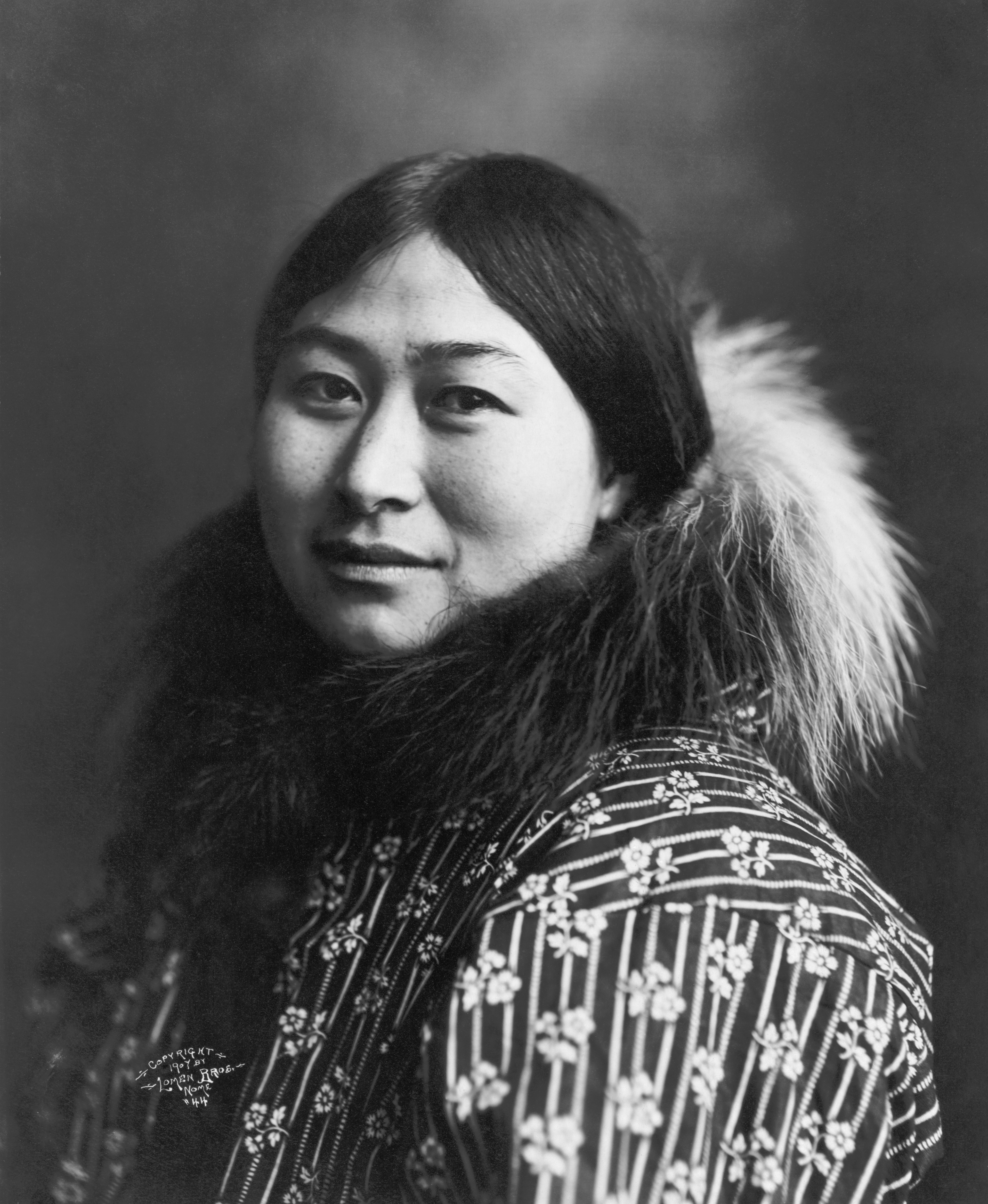 Photograph of Nowadluk/Nowadlook (Nora) Ootenna wearing a parka with a fur-lined hood. Ootenna was an Inupiat woman who was a popular subject for Alaskan photographers around the time - [1] [2] [3] [4] [5] [6] [7]. She was has been mentioned as the daughter of James Keok[8] (.doc) (though their recorded birth dates makes this unlikely [9]) and she was married to George Ootenna[10] who were natives of Cape Prince of Wales[11] and worked as reindeer herders[12] (a business in which Lomen Bros was the main investor in Alaska)[13]. The Glenbow archive places most of the photos of her there.[14] Nora was born in 1885 and as of the 1910 Census she lived in Port Clarence.[15]